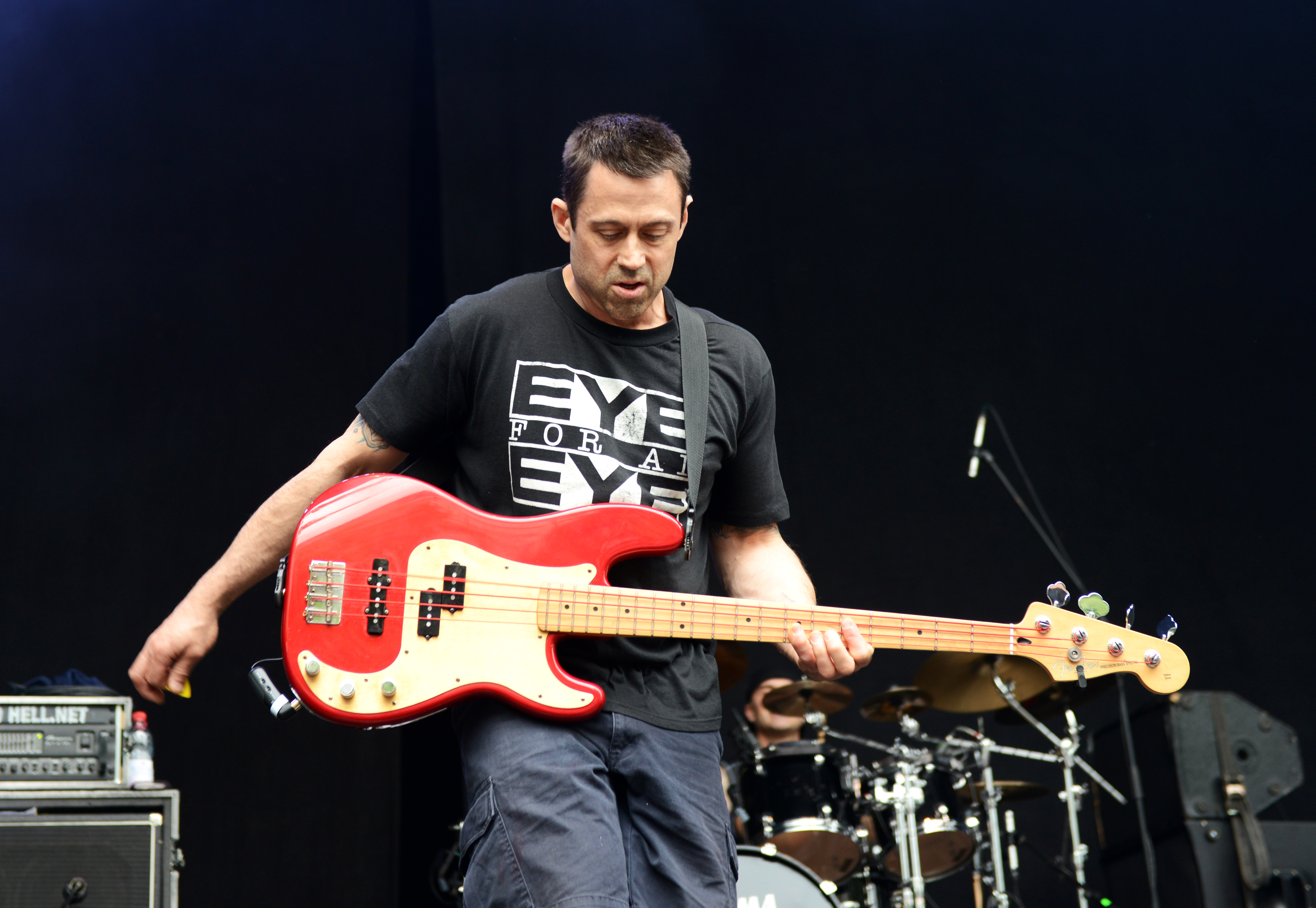 Shadows Fall at Turock Open Air 2014 in Essen, Germany